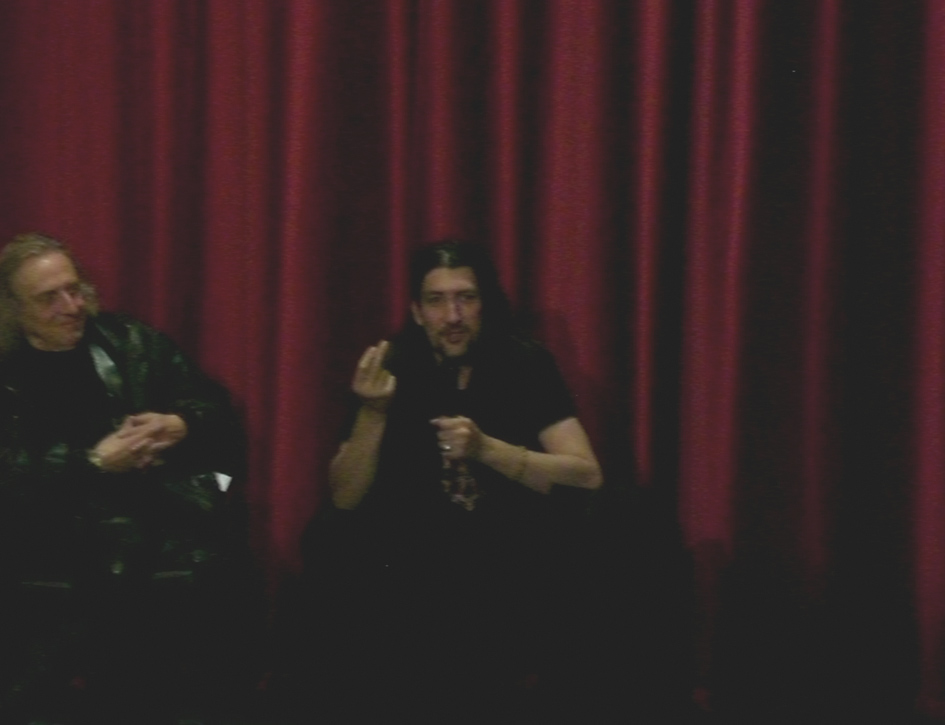 Richard Stanley, South-African filmmaker, in Edinburgh